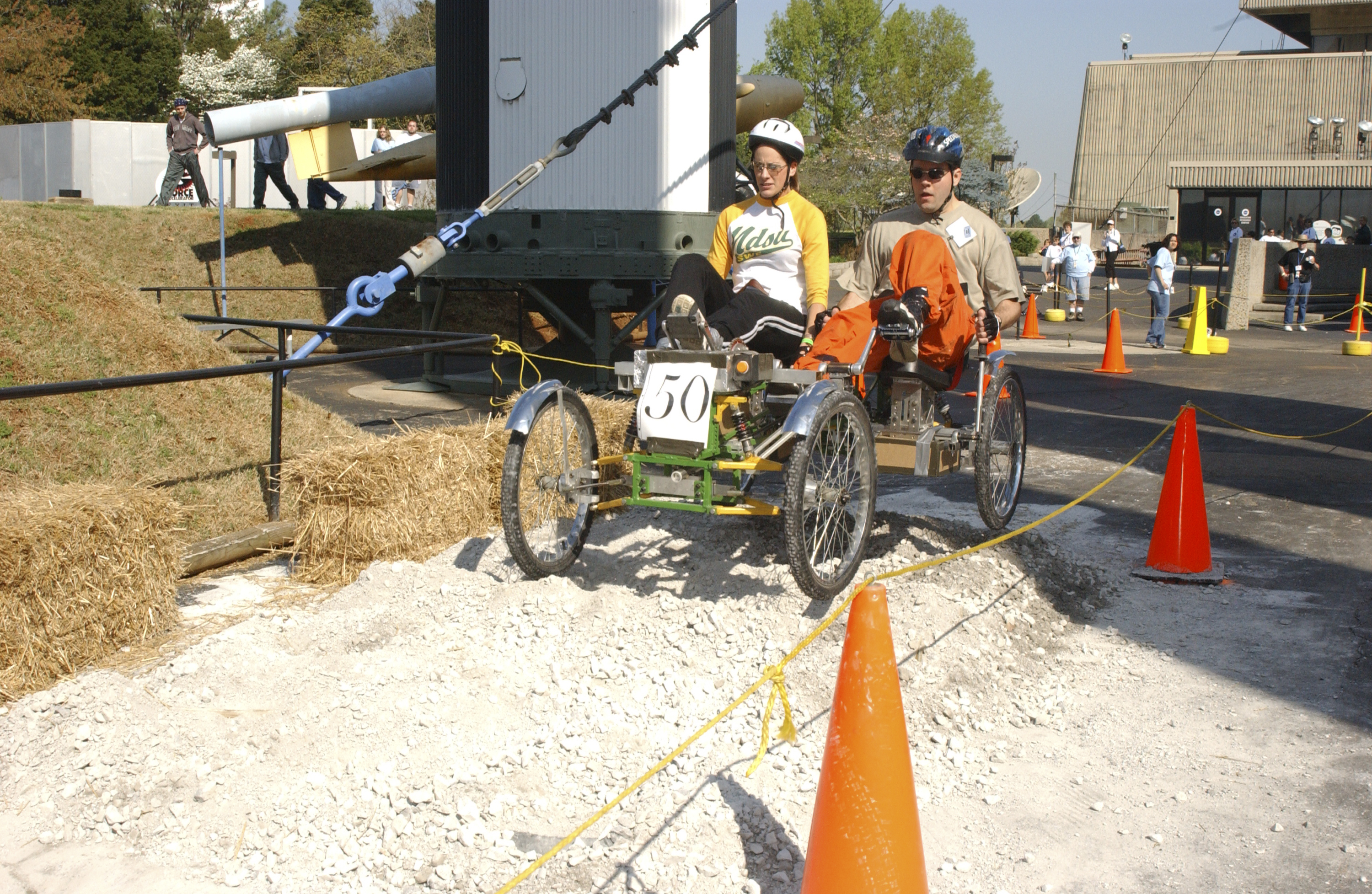 Students from across the United States and as far away as Puerto Rico came to Huntsville, Alabama for the 10th annual Great Moonbuggy Race at the U.S. Space Rocket Center. Sixty-eight teams, representing high schools and colleges from all over the United States, and Puerto Rico, raced human powered vehicles over a lunar-like terrain. Vehicles powered by two team members, one male and one female, raced one at a time over a half-mile obstacle course of simulated moonscape terrain. The competition is inspired by development, some 30 years ago, of the Lunar Roving Vehicle (LRV), a program managed by the Marshall Space Flight Center. The LRV team had to design a compact, lightweight, all-terrain vehicle that could be transported to the Moon in the small Apollo spacecraft. The Great Moonbuggy Race challenges students to design and build a human powered vehicle so they will learn how to deal with real-world engineering problems similar to those faced by the actual NASA LRV team. In this photograph, Team No. 1 from North Dakota State University in Fargo conquers one of several obstacles on their way to victory. The team captured first place honors in the college level competition. Keywords: Great Moonbuggy Race, North Dakota State University, Lunar Roving Vehicle, LRV